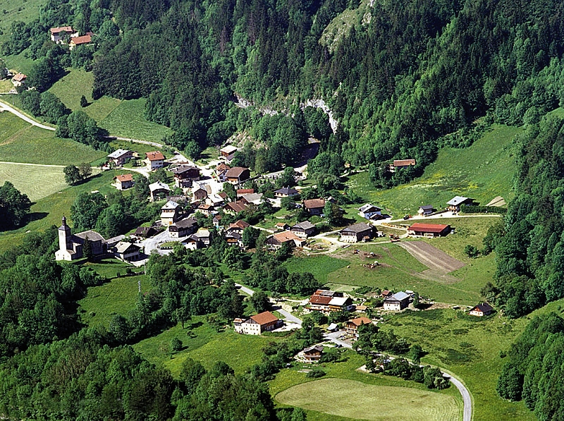 La Baume Village, Vallée d'Aulps, Haute-Savoie, France